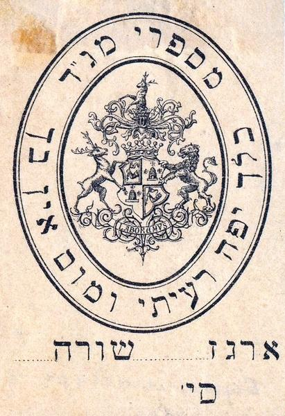 coat of arms of Baron Günzburg on the bookplate